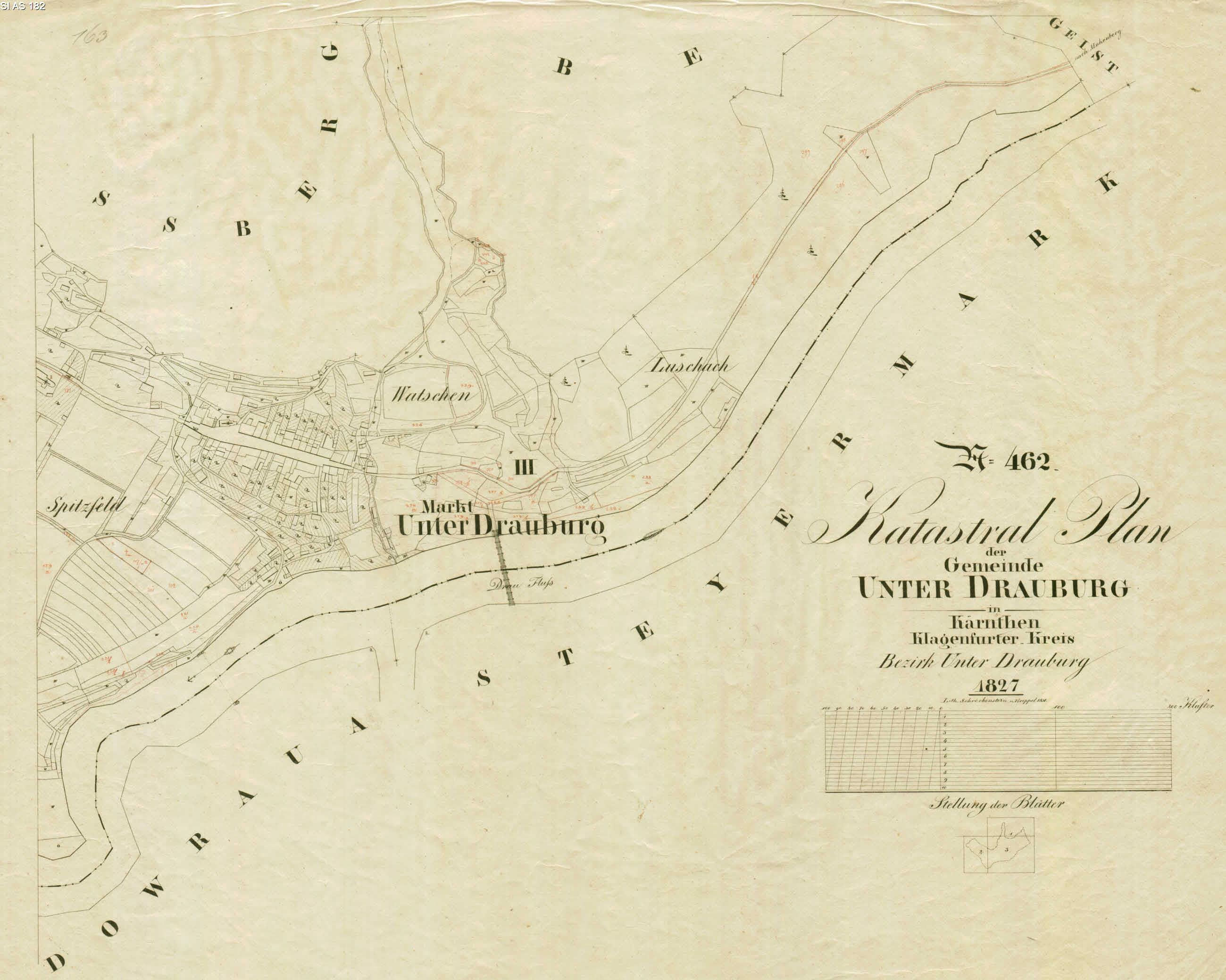 Historical cadastral map of Dravograd in Slovenia